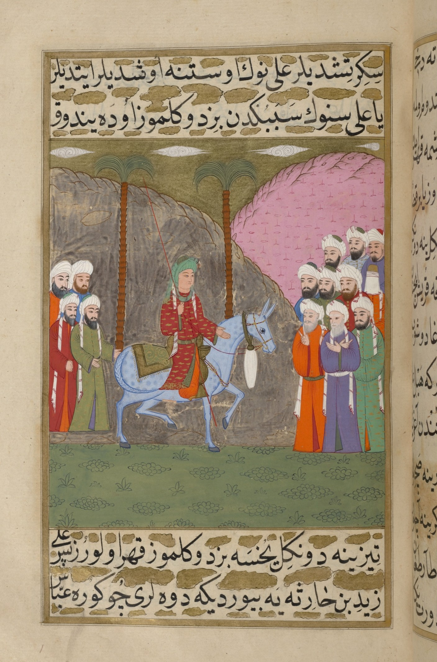 'Alî, mounted on his blue mule and holding a long red staff, is approached by a delegation from the Quraysh tribe, asking him not to return to Muhammad. From a Turkish manuscript of the SIYAR-I NABÎ (1594-1595)